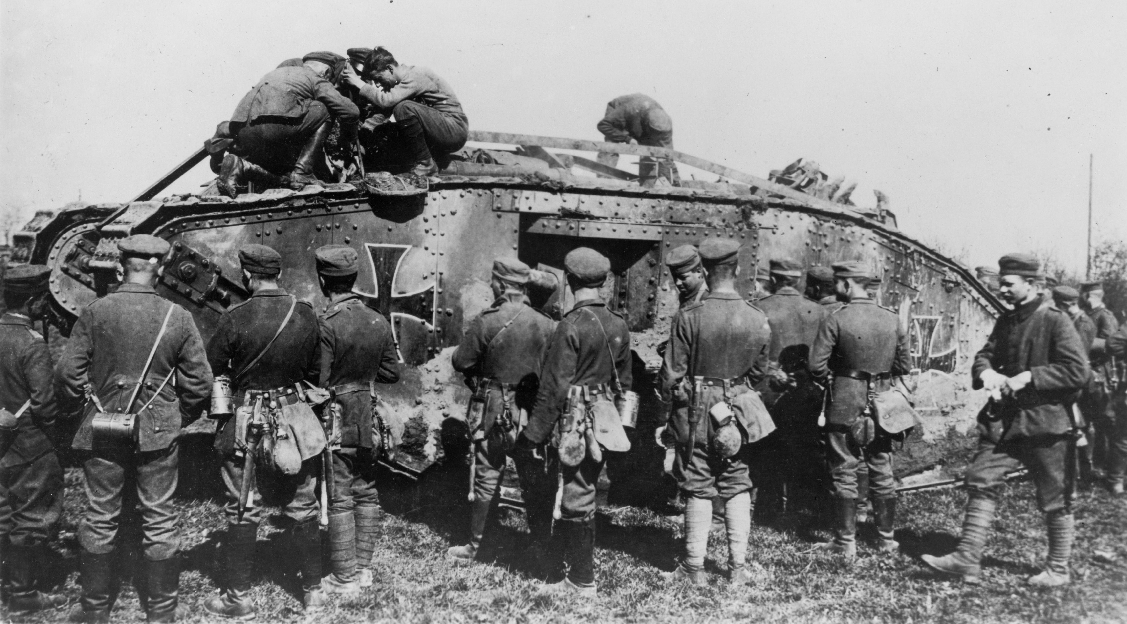 German soldiers with a captured British Mark IV series tank, converted for German military use, at an unknown location.